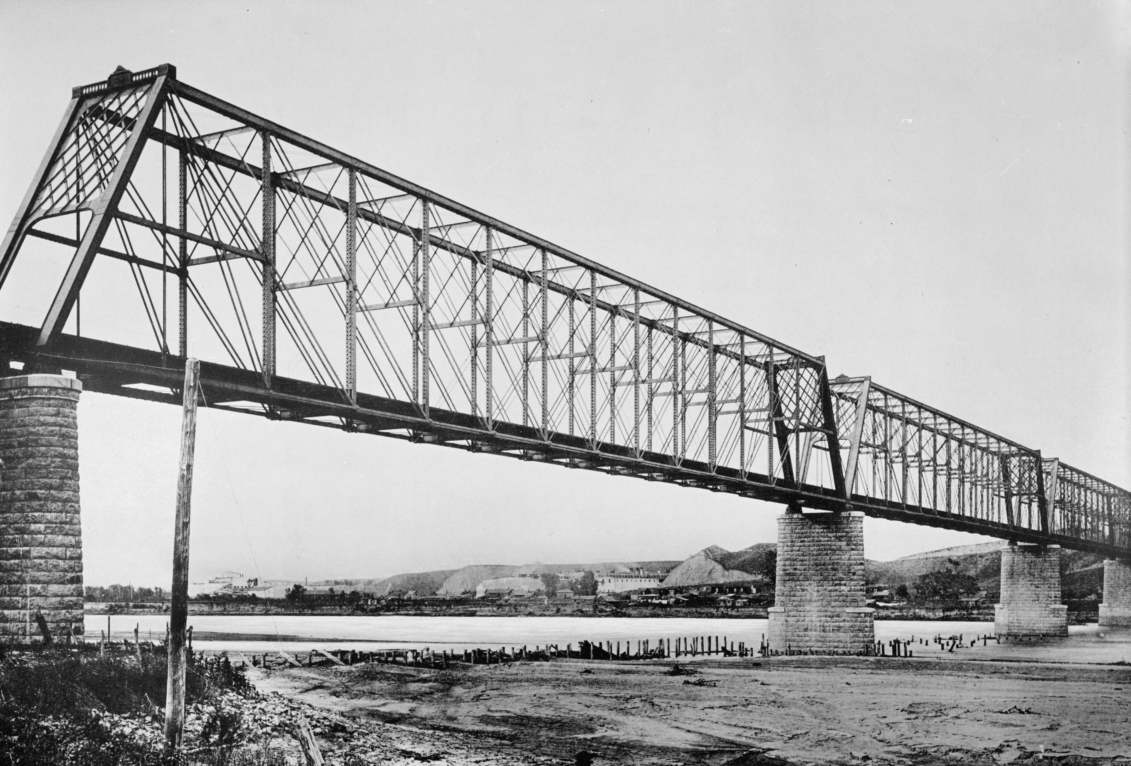 Photocopy from George S. Morison's The Sioux City Bridge, 1890. Photographer unknown, circa 1889. SOUTH WEB AND WEST PORTAL OF BRIDGE - Sioux City Bridge, Spanning the Missouri River, Sioux City, Woodbury County, IA